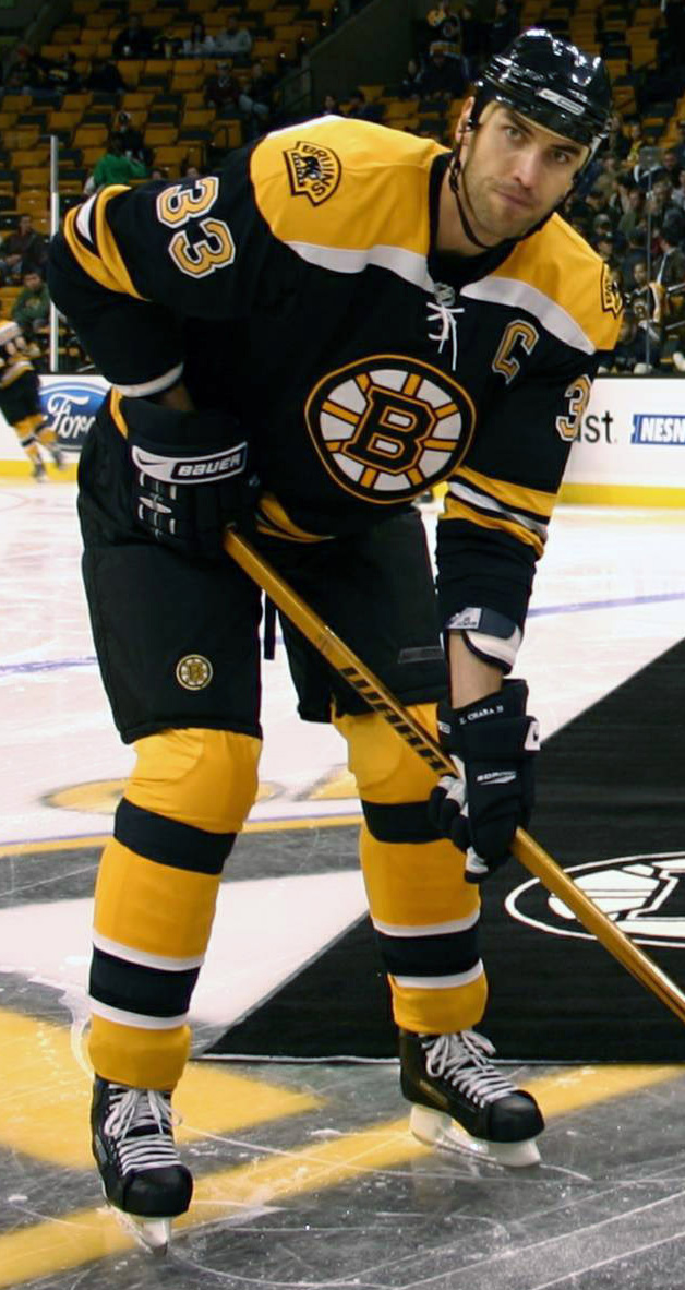 BOSTON, Mass. (Nov. 4, 2007) - Boston Bruins team captain, Zdeno Chara. U.S. Navy photo by Chief Mass Communication Specialist Dave Kaylor (RELEASED)